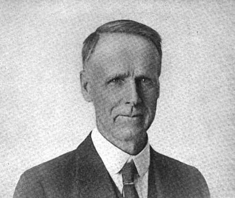 Simon Benson (retired)